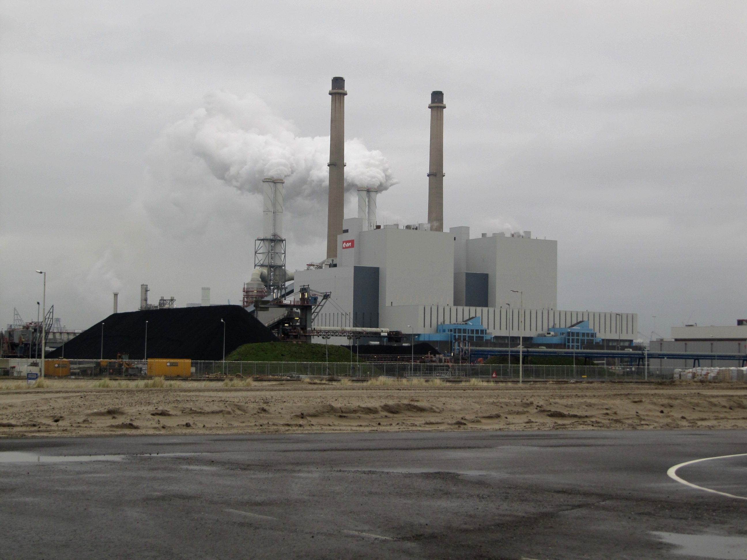 Centrale Maasvlakte, dec 2010